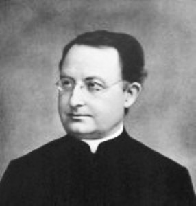 Friedrich Dasbach (1846-1907) was a German Catholic writer and publisher as well as a politician of the Center Party.